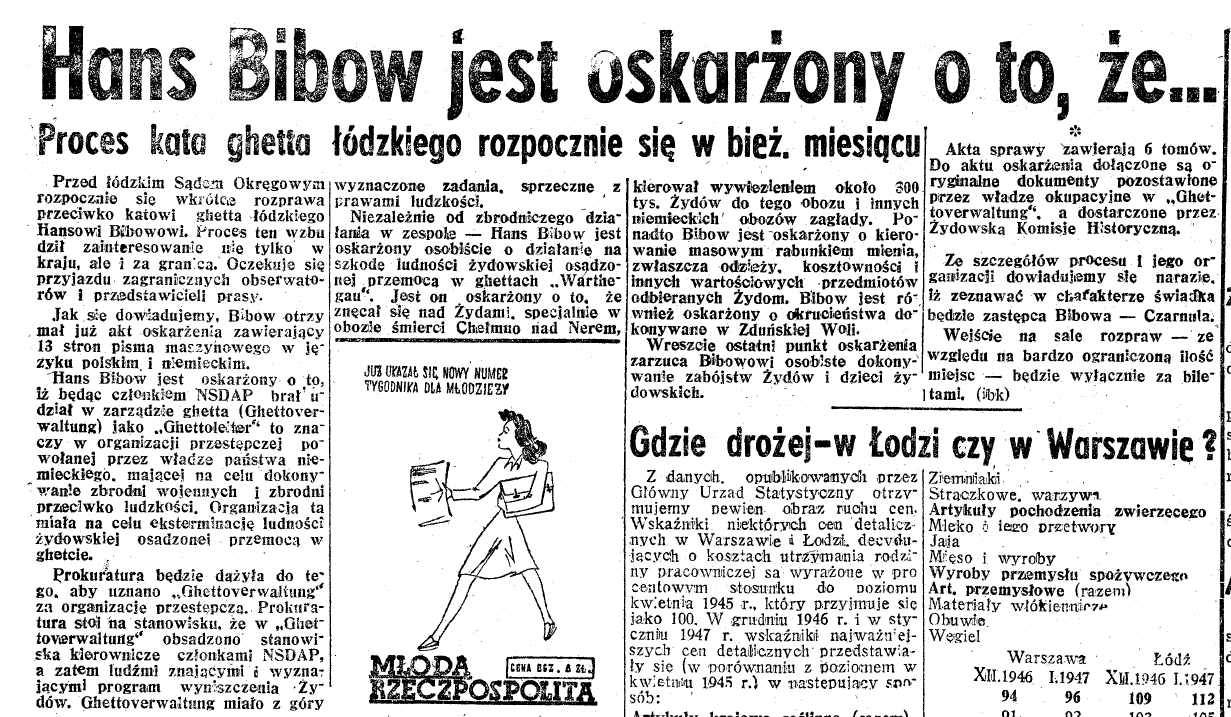 Information on the beginning of the criminal trial of Hans Biebow from the local newspaper called "Dziennik Łódzki", 3rd of April, 1947, no. 92 (638)